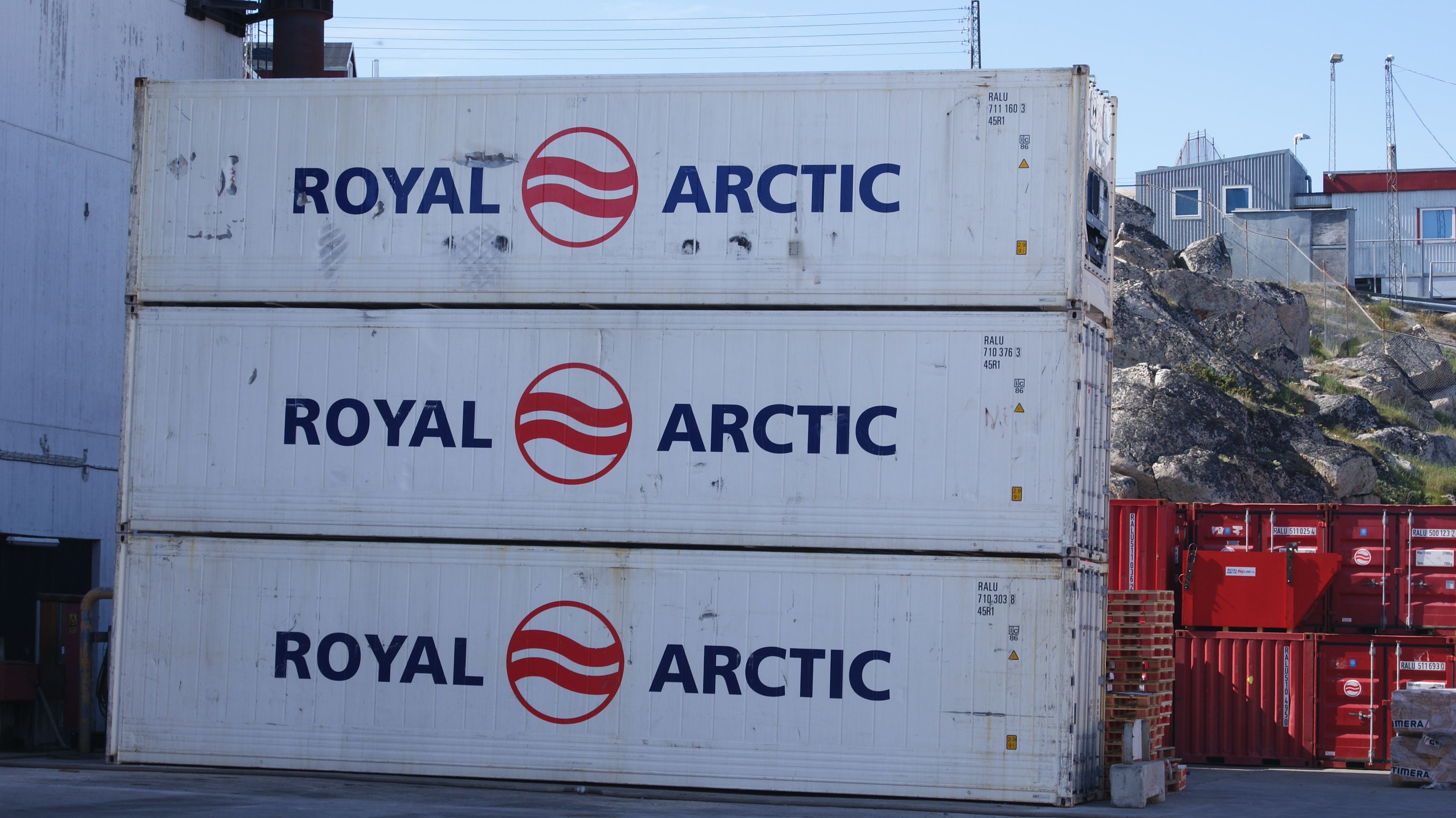 Royal Arctic shipping containers in Ilulissat port, Greenland.